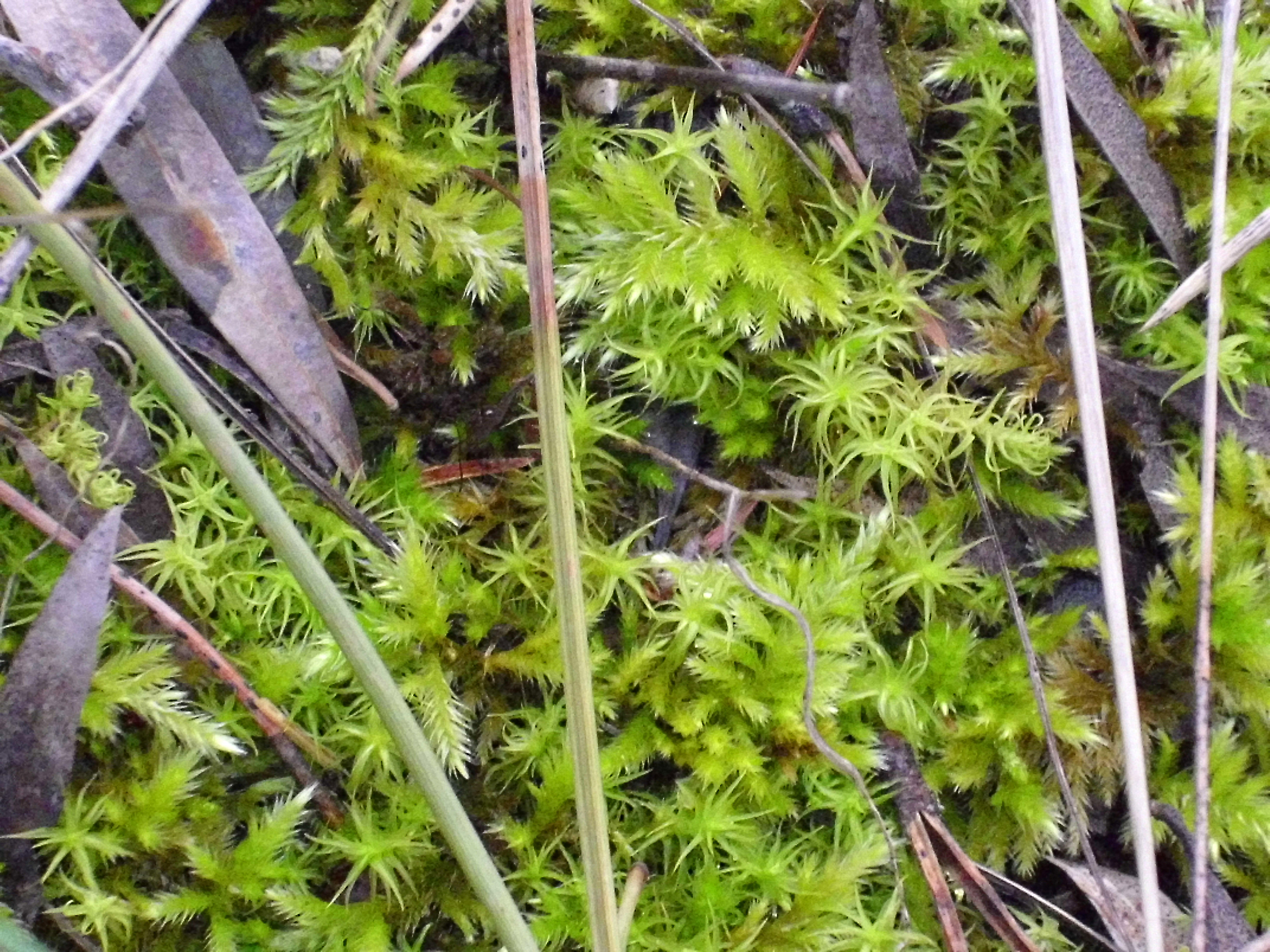 Thuidium abietinum var. abietinum close up, Sierra Madrona, Spain.